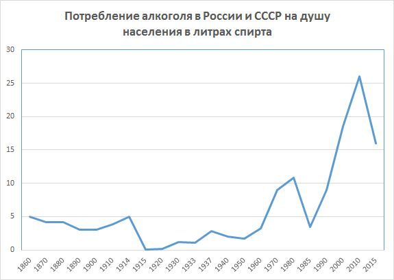 Употребление алкоголя в России